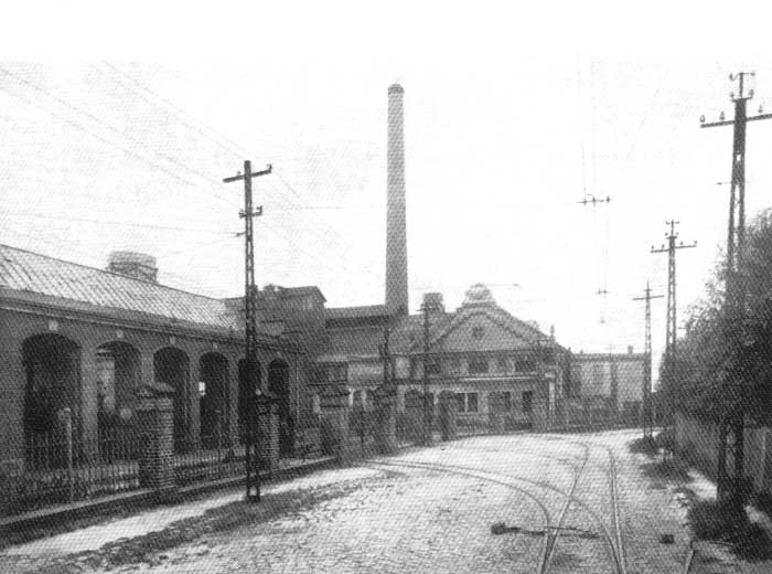 The first power station of Klaipėda